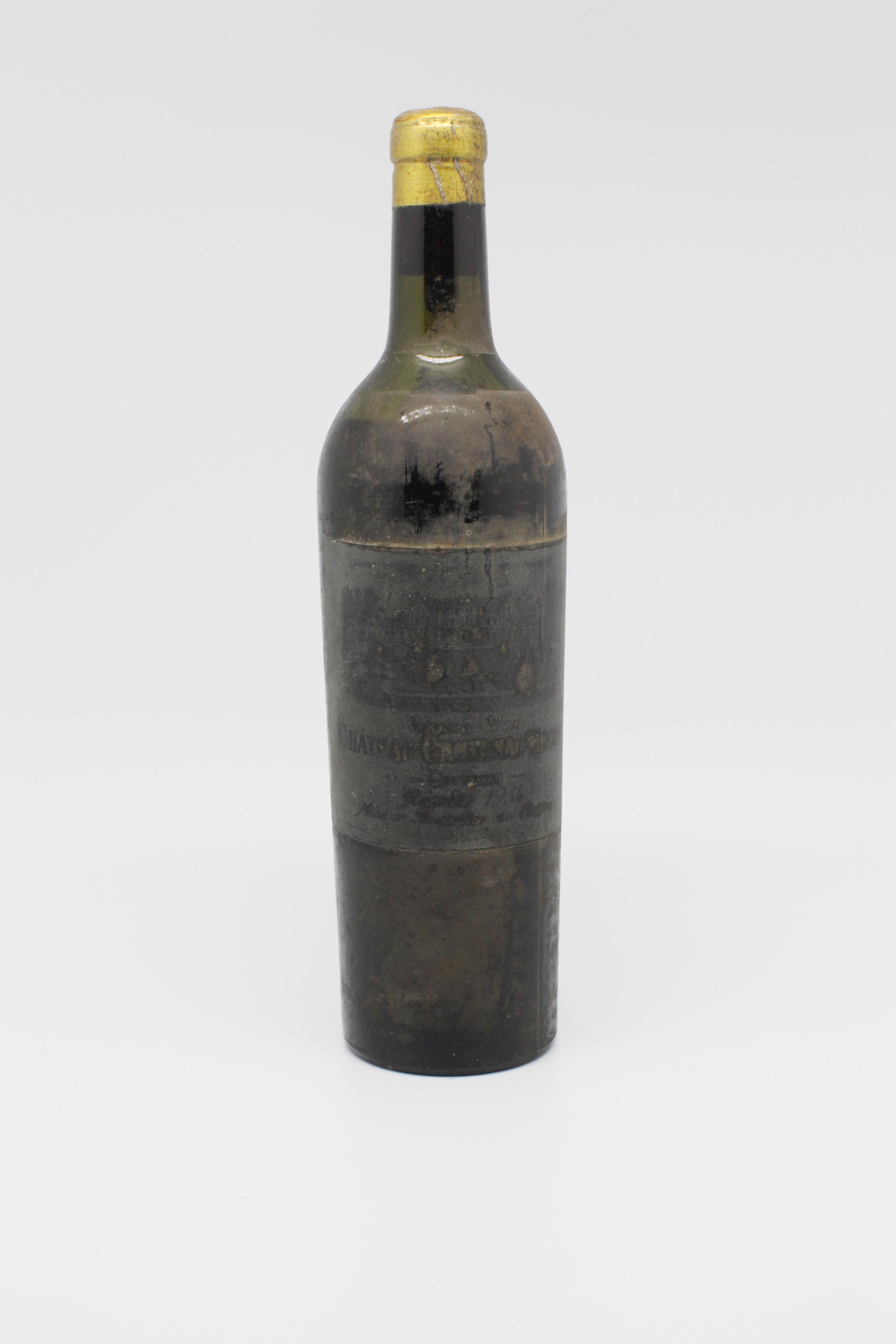 Wine bottle Chateau-Cantenac Brown 1934